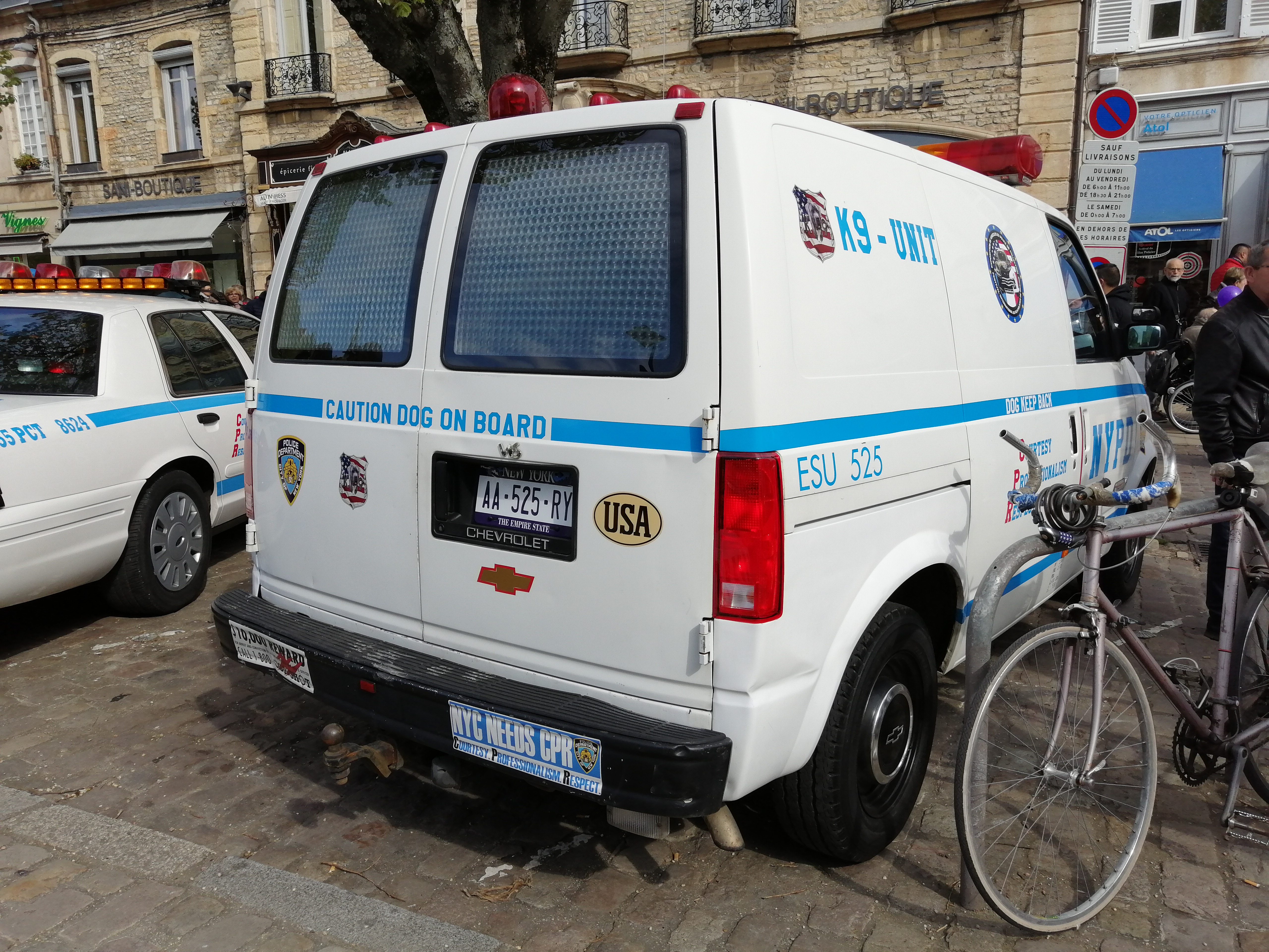 1986 Chevrolet Astro NYPD (V6 4.3 165 hp) at Beaune